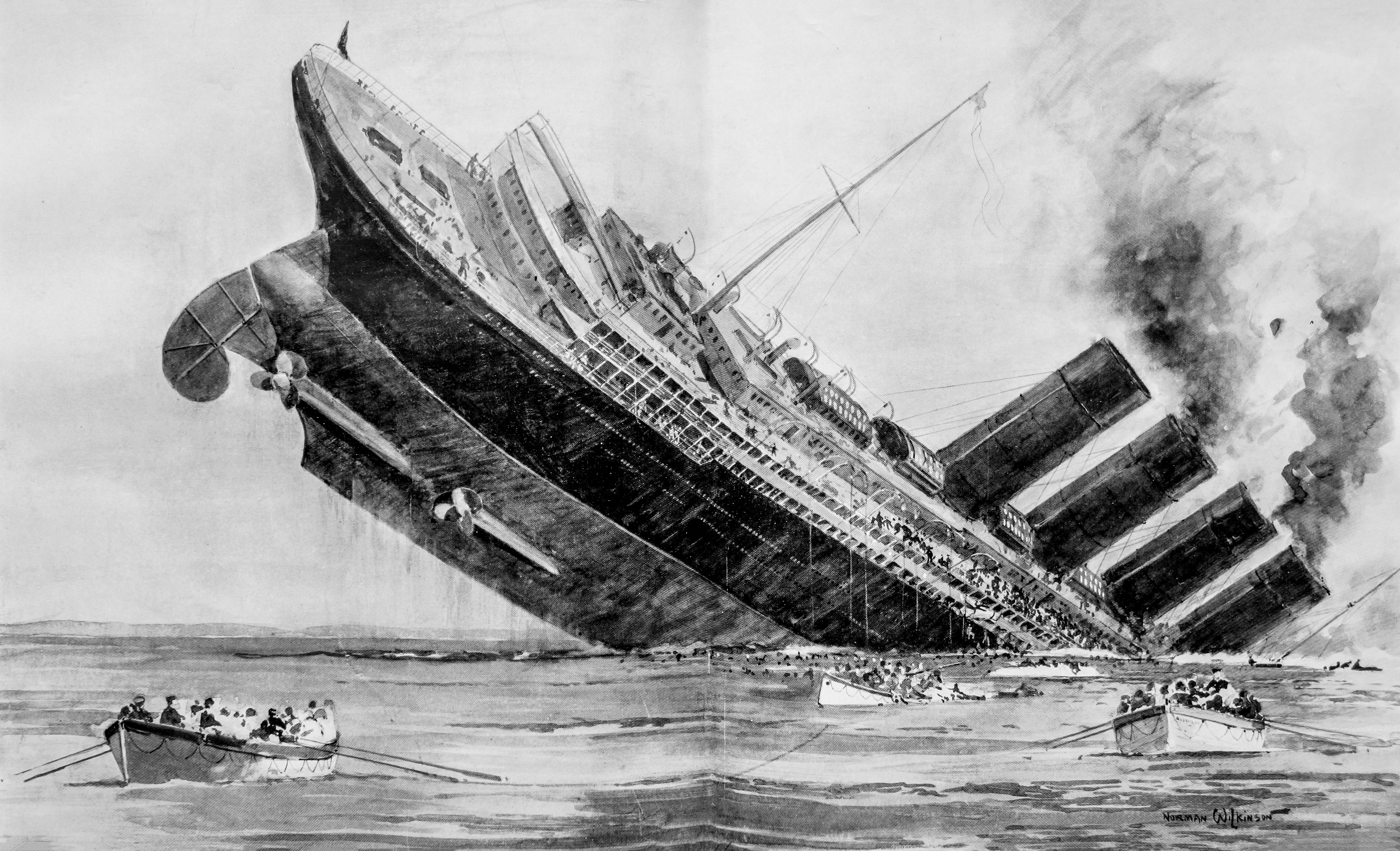 Sinking of the Lusitania. Engraving by Norman Wilkinson, The Illustrated London News, May 15, 1915. P. 631.